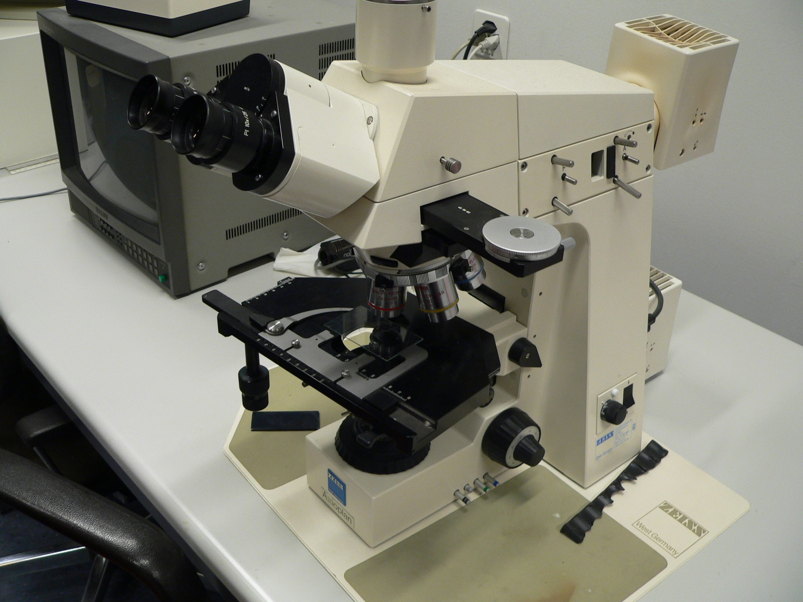 binocular microscope